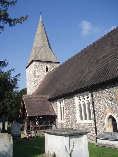 West tower, broach spire and south porch of SS Peter and Andrew's parish church, Old Windsor, Berkshire, seen from the southeast